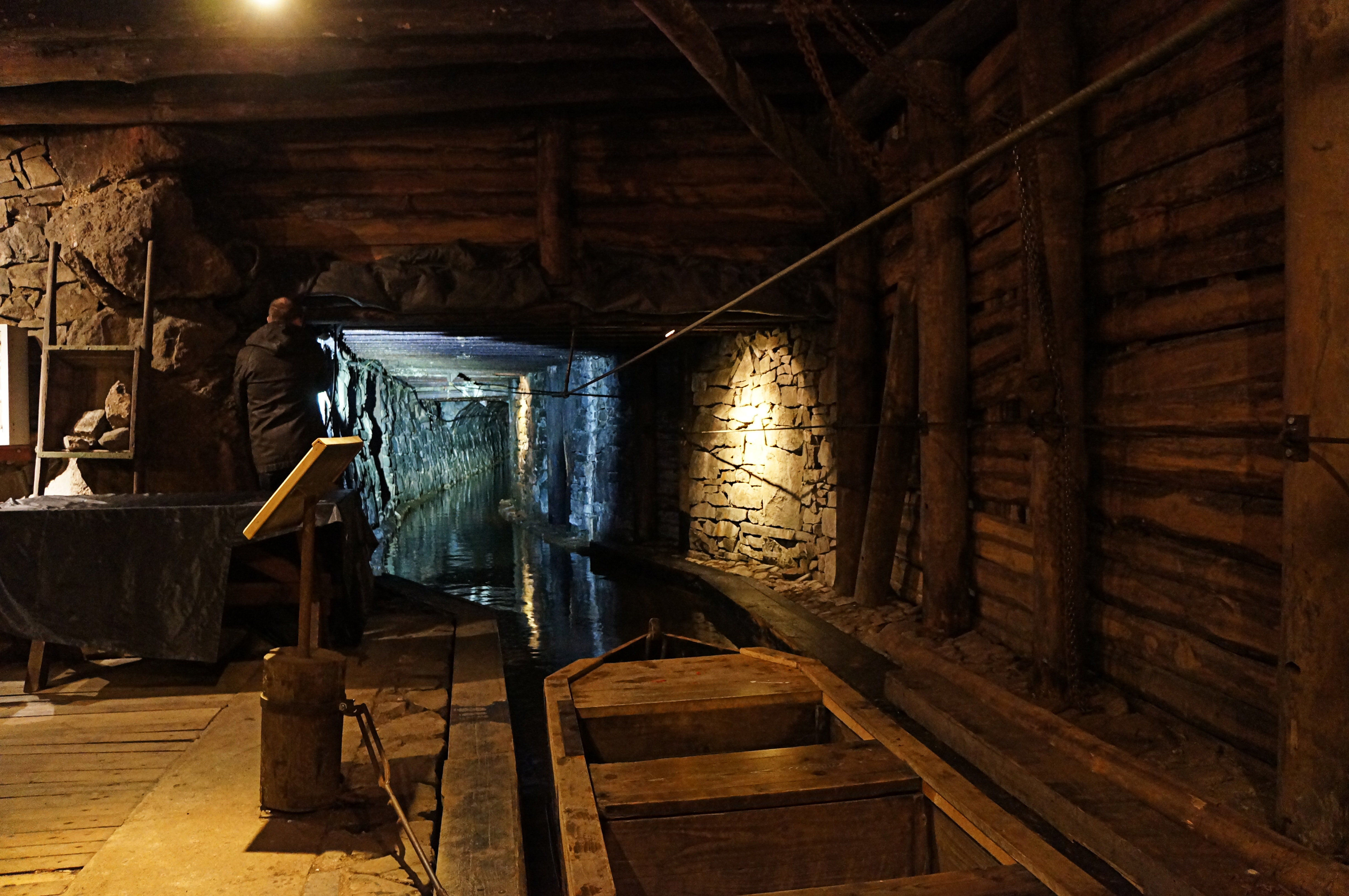 Mine Lautenthals Glück. Ore transport on waterway.